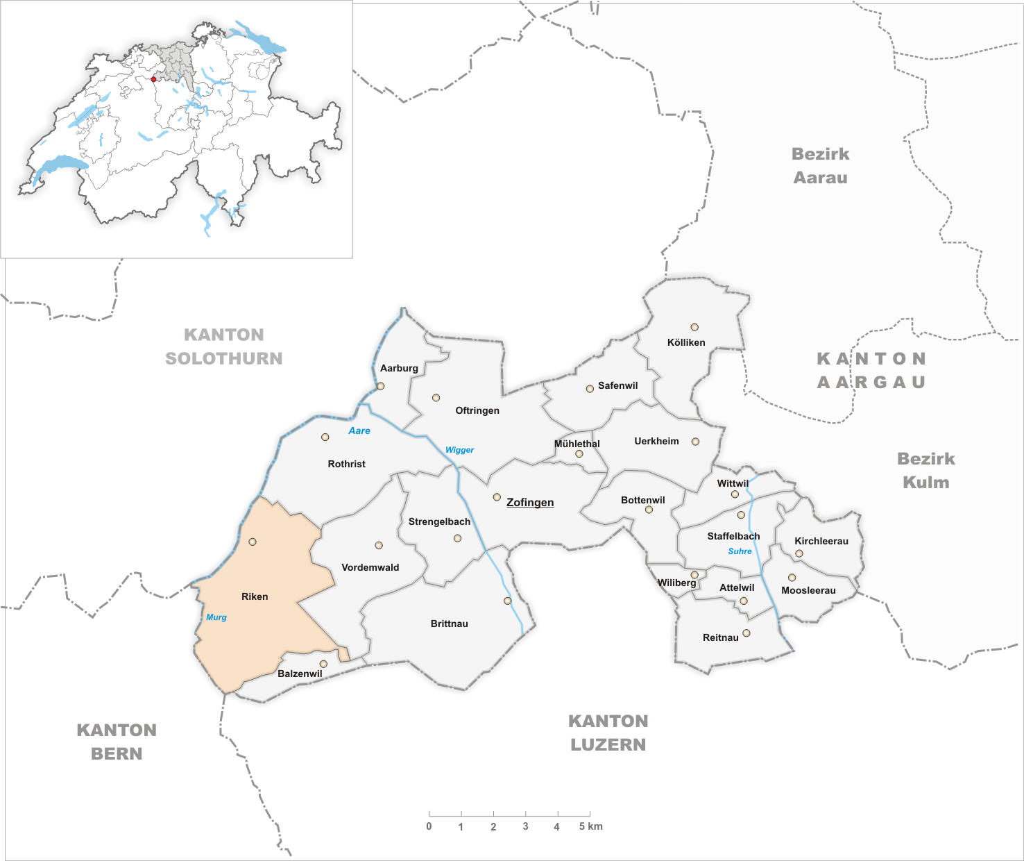 Municipality Riken